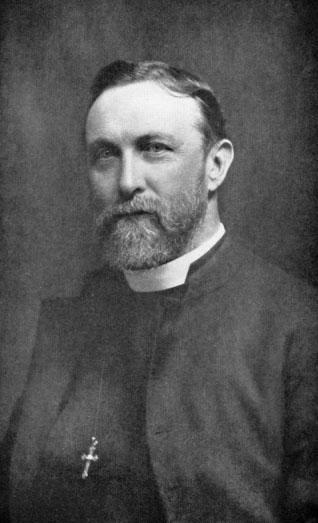 George Alfred Lefroy (1854 –1919), head of the United Society Partners in the Gospel mission in Delhi, Bishop of Lahore, Bishop of Calcutta